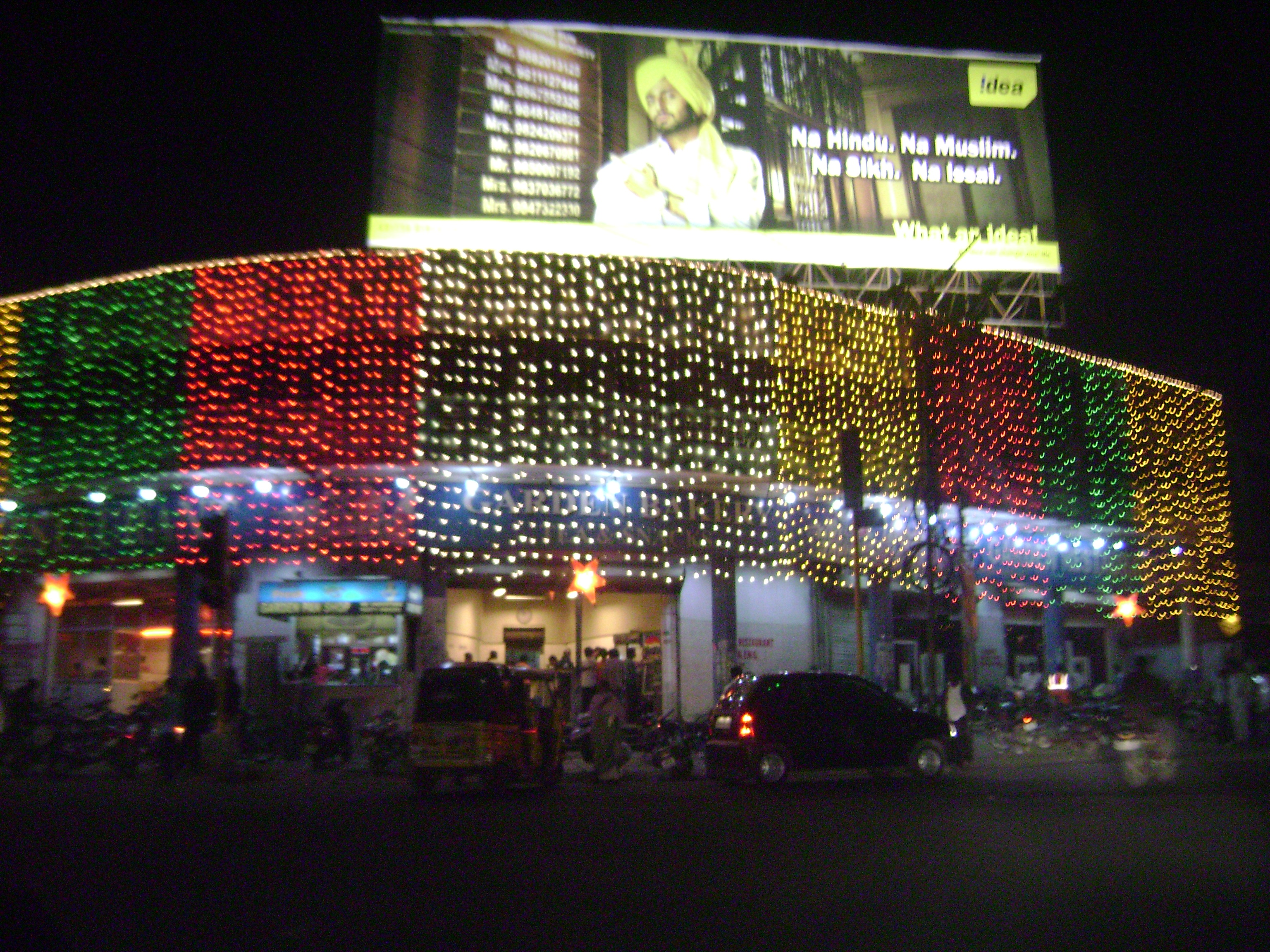 own work